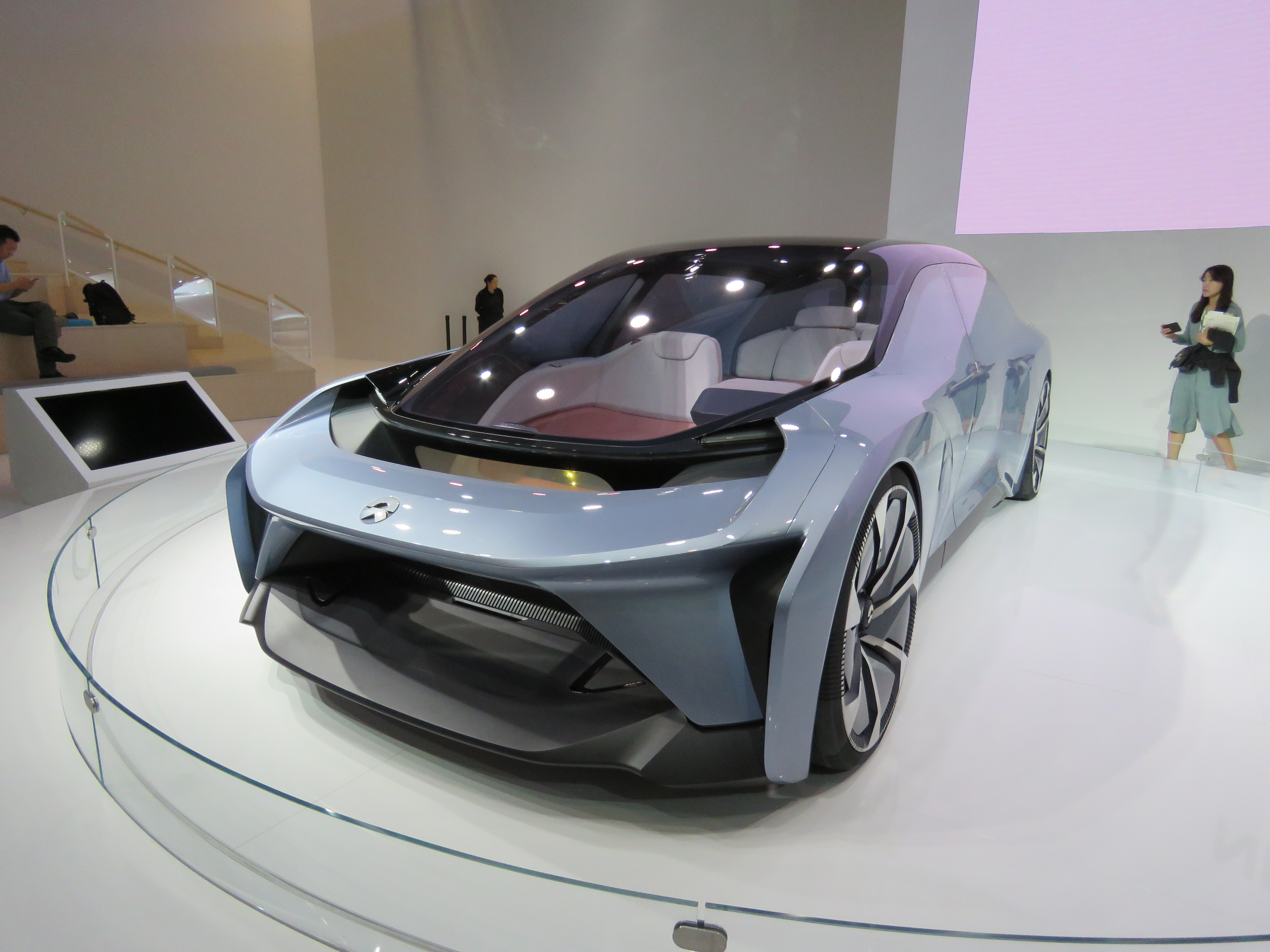 NIO Eve concept